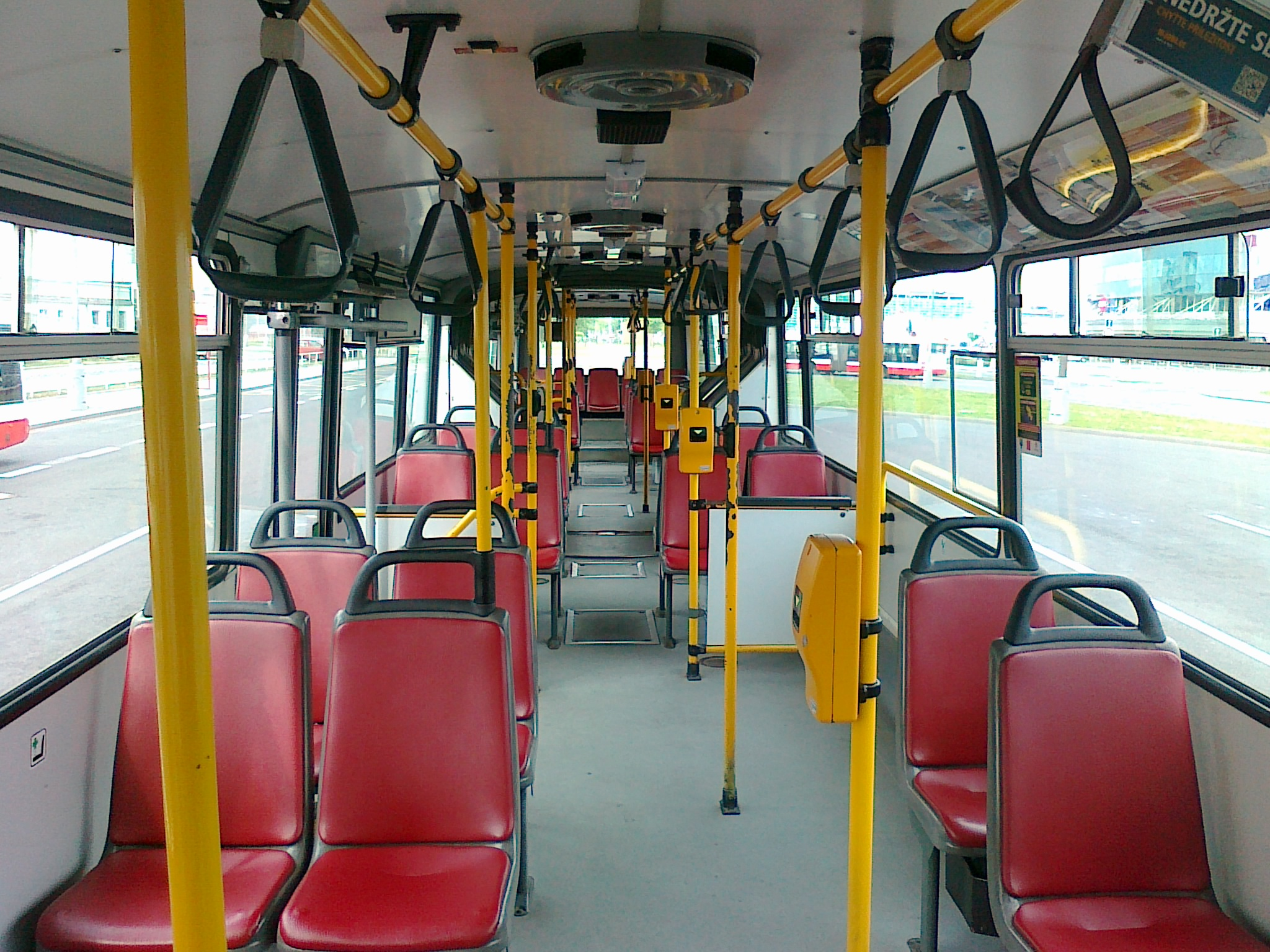 Interior of Karosa B941 no.6193 of Prague transport company